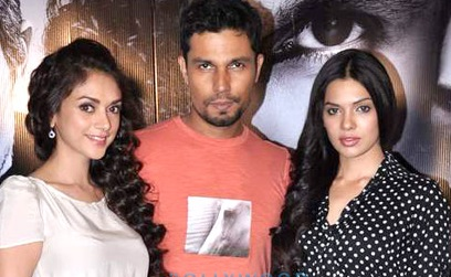 Aditi Rao Hydari, Randeep Hooda and Sara Loren promoting MURDER 3